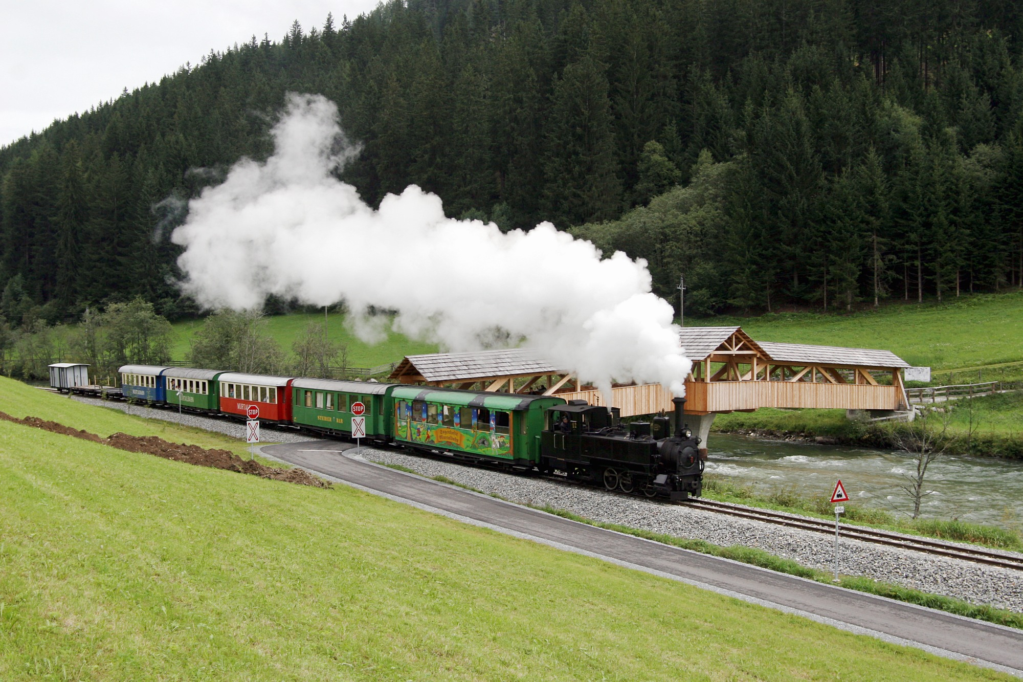 Steam special with S.12 on the Murtalbahn between Madling and Tamsweg